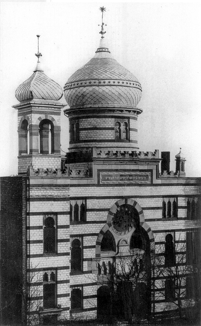 Synagogue of Wuppertal-Barmen, around 1900